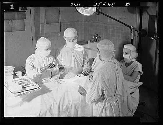 Johns Hopkins Hospital, Baltimore, Maryland. Operating room (reenacted).